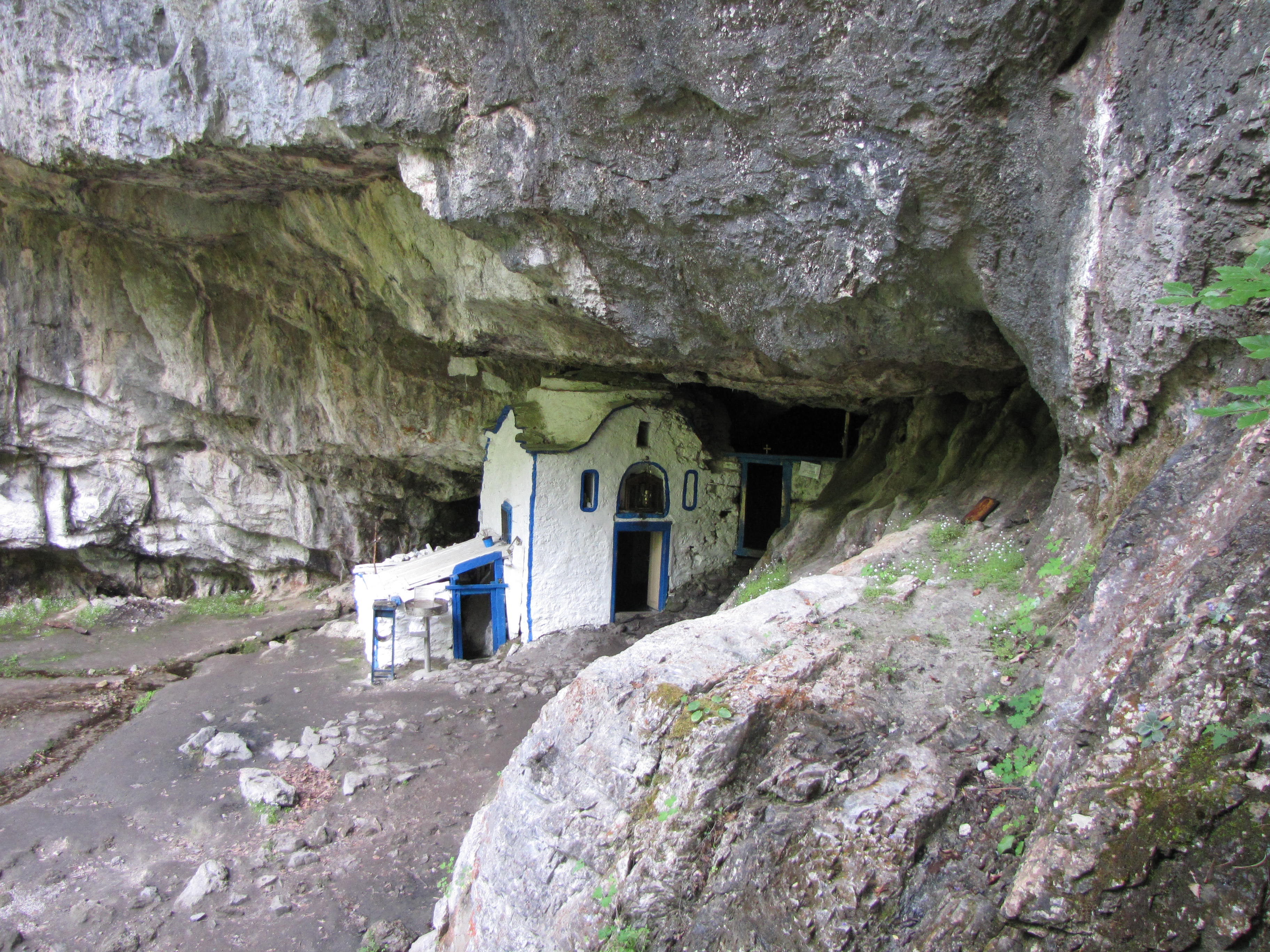 Chapell of the Holy Dionysios